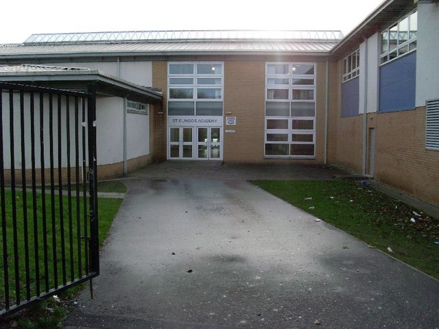 St Mungo's Academy Secondary school in Glasgow's East End.